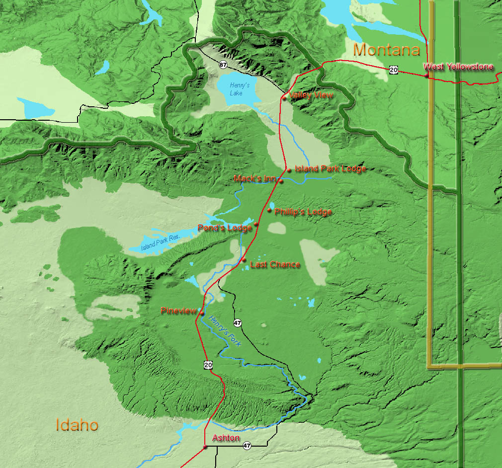 Island Park, Idaho Place Names